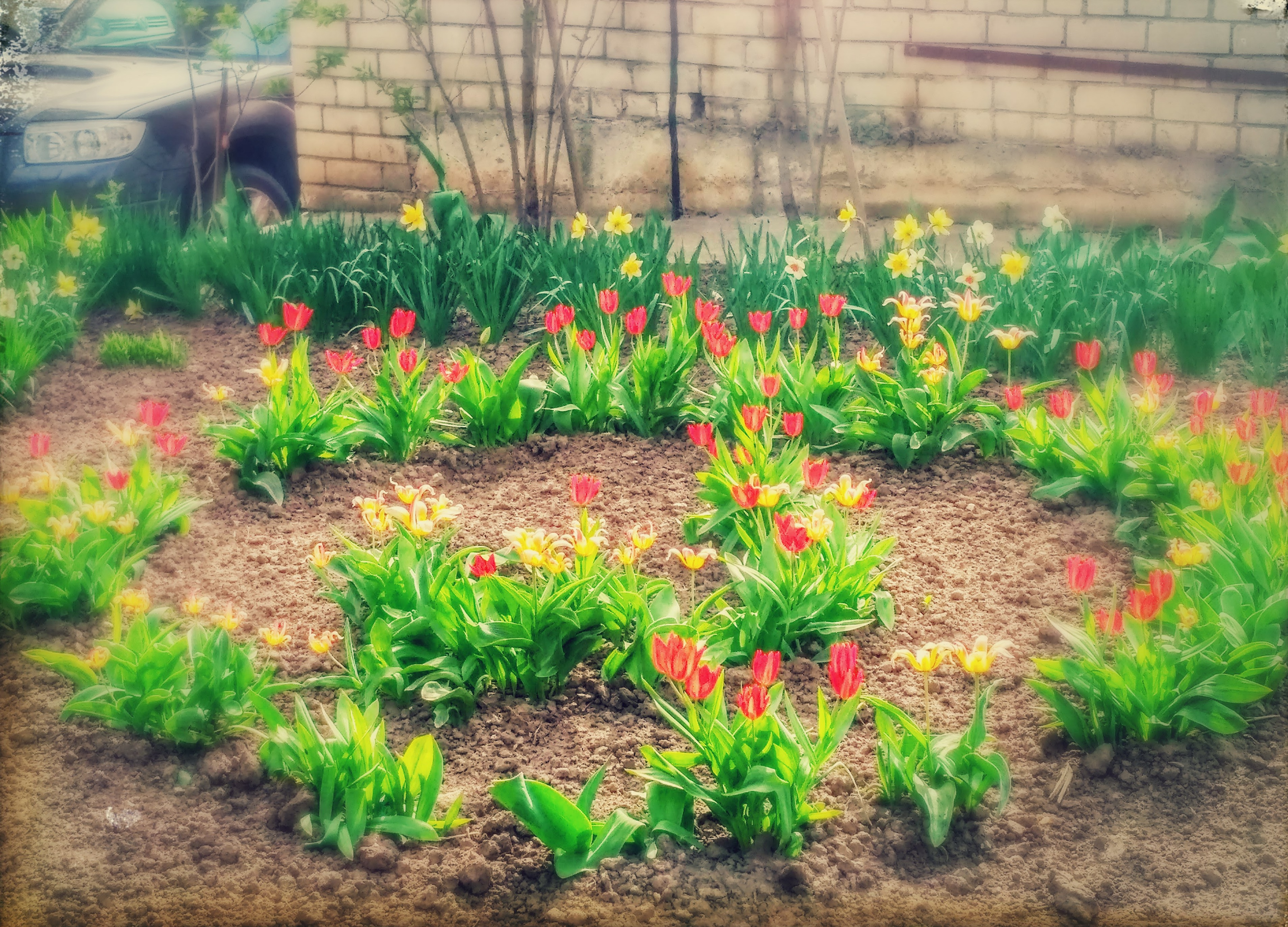 a circle of red tulip flowers in the summer season